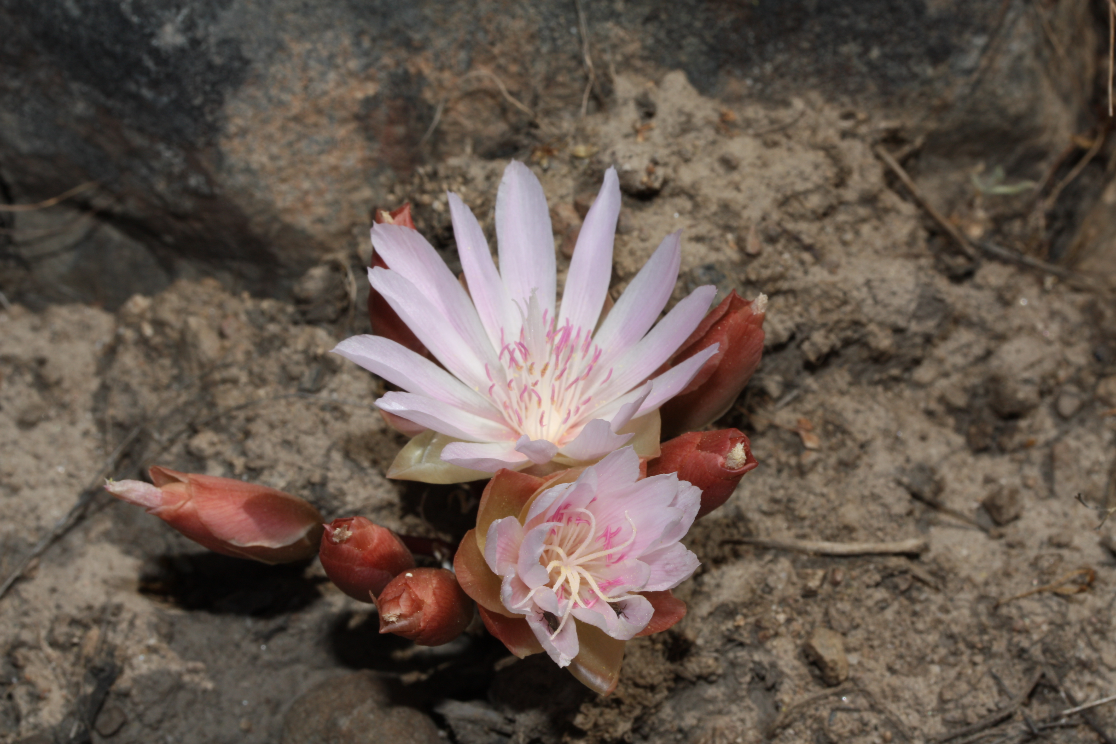 Bitter-root